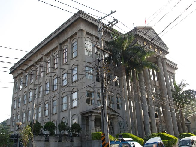 Sanxia Town Hall, taken by ResTpeTw on May 13th 2007.